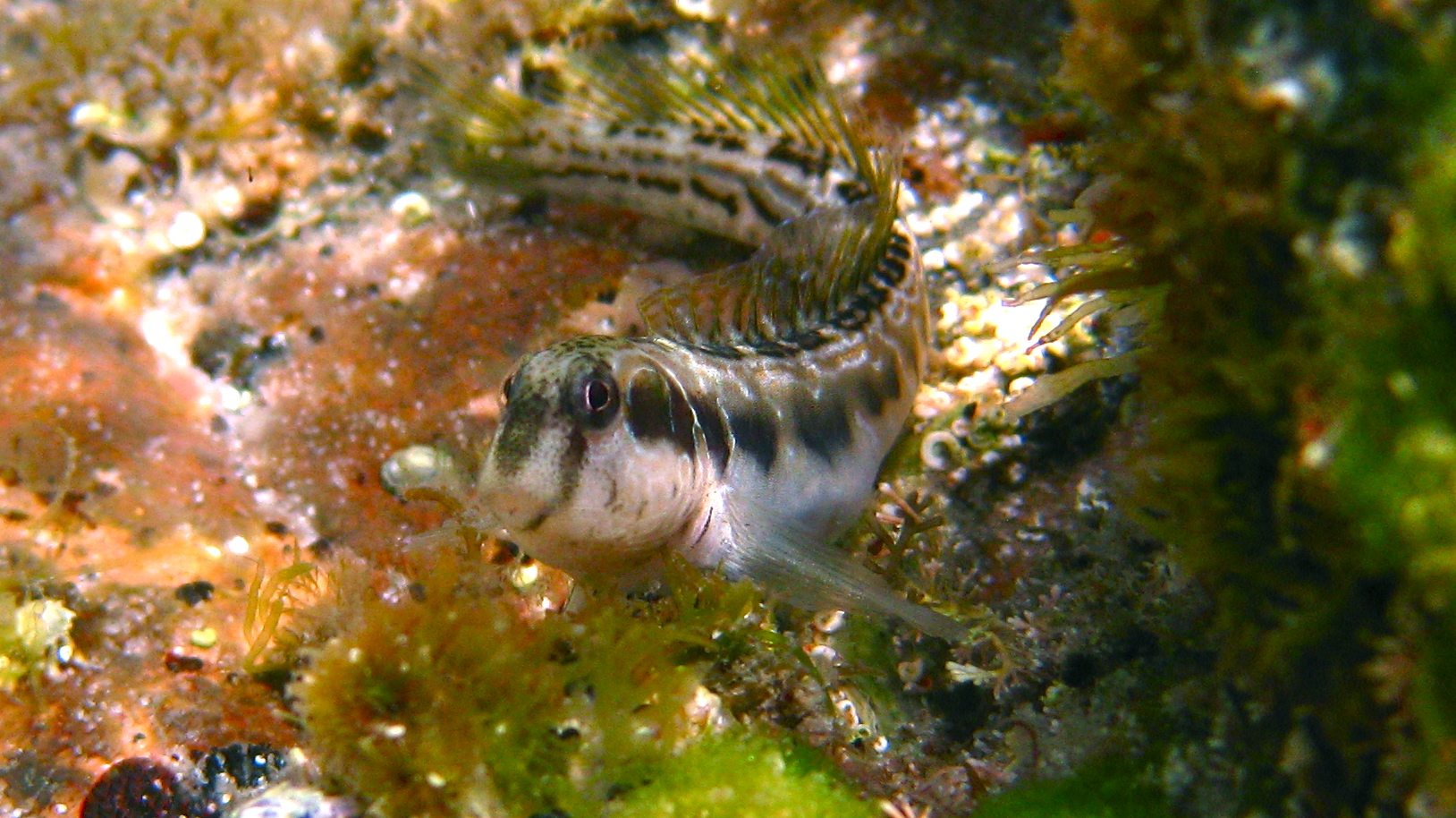 A Germain's Blenny in his wildlife habitat.